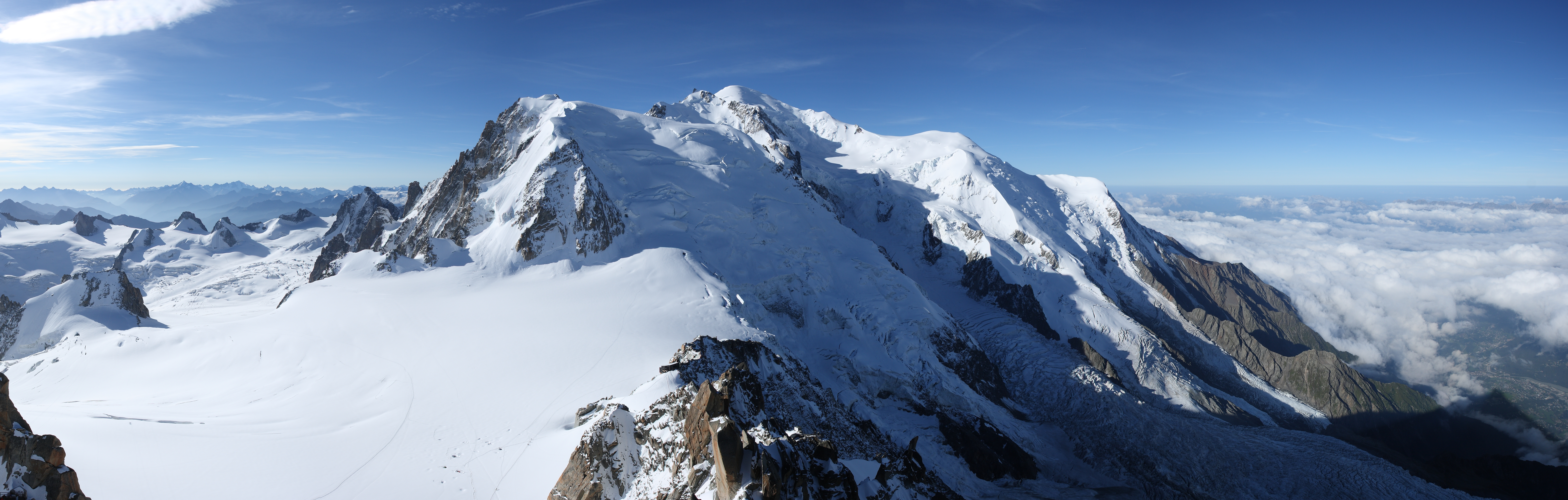 Mont Blanc as seen from Aiguille du Midi